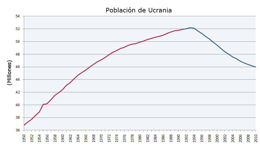 Ukraine's population (1950-2010).